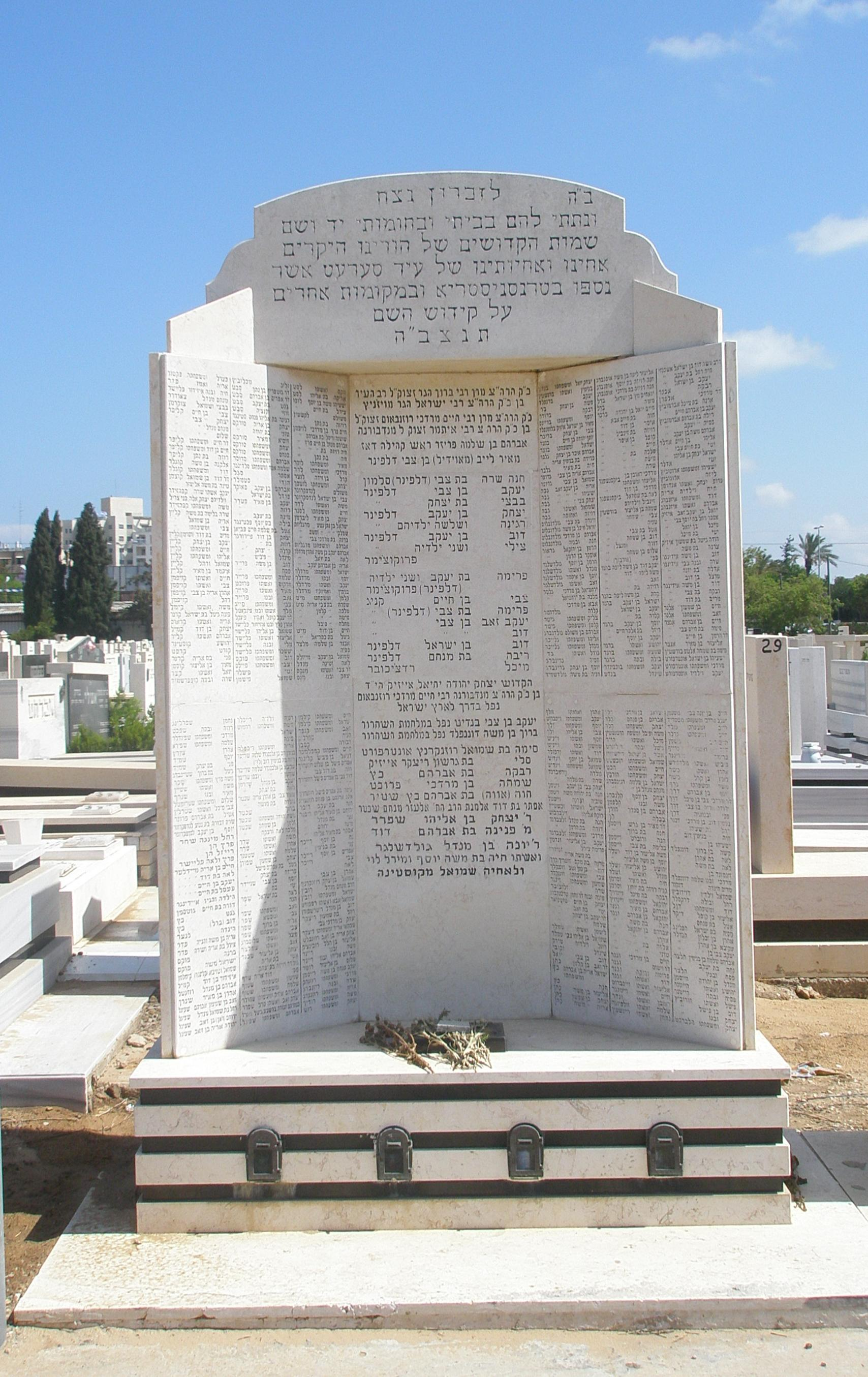 Siret memorial at Holon Cemetery